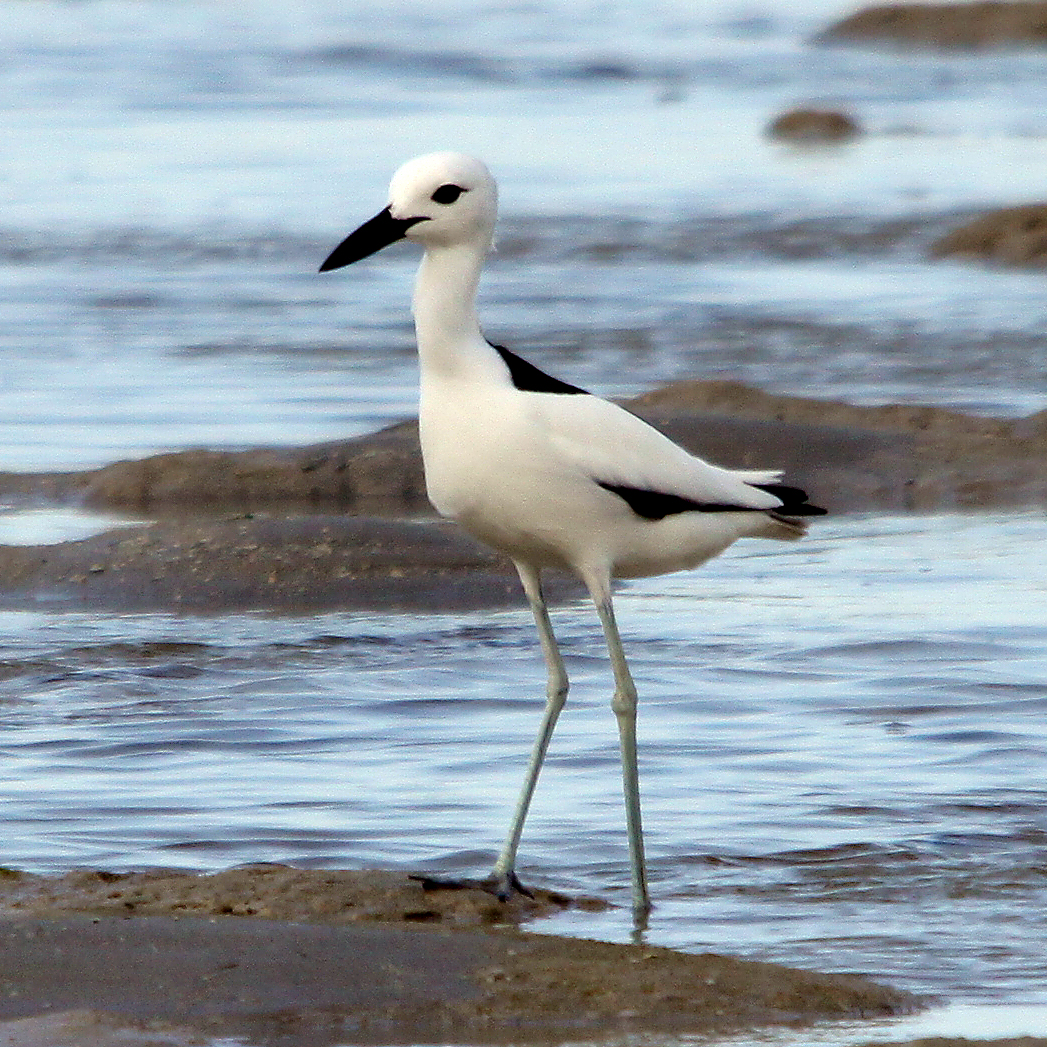 Dromas ardeola, photographed in Kenya